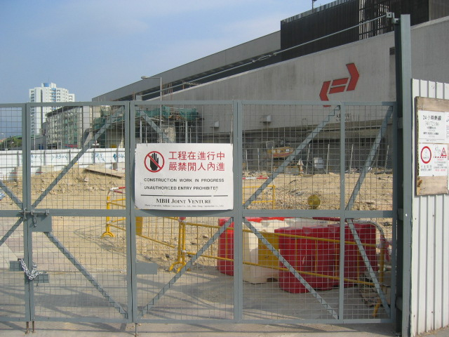 大圍站擴建工程